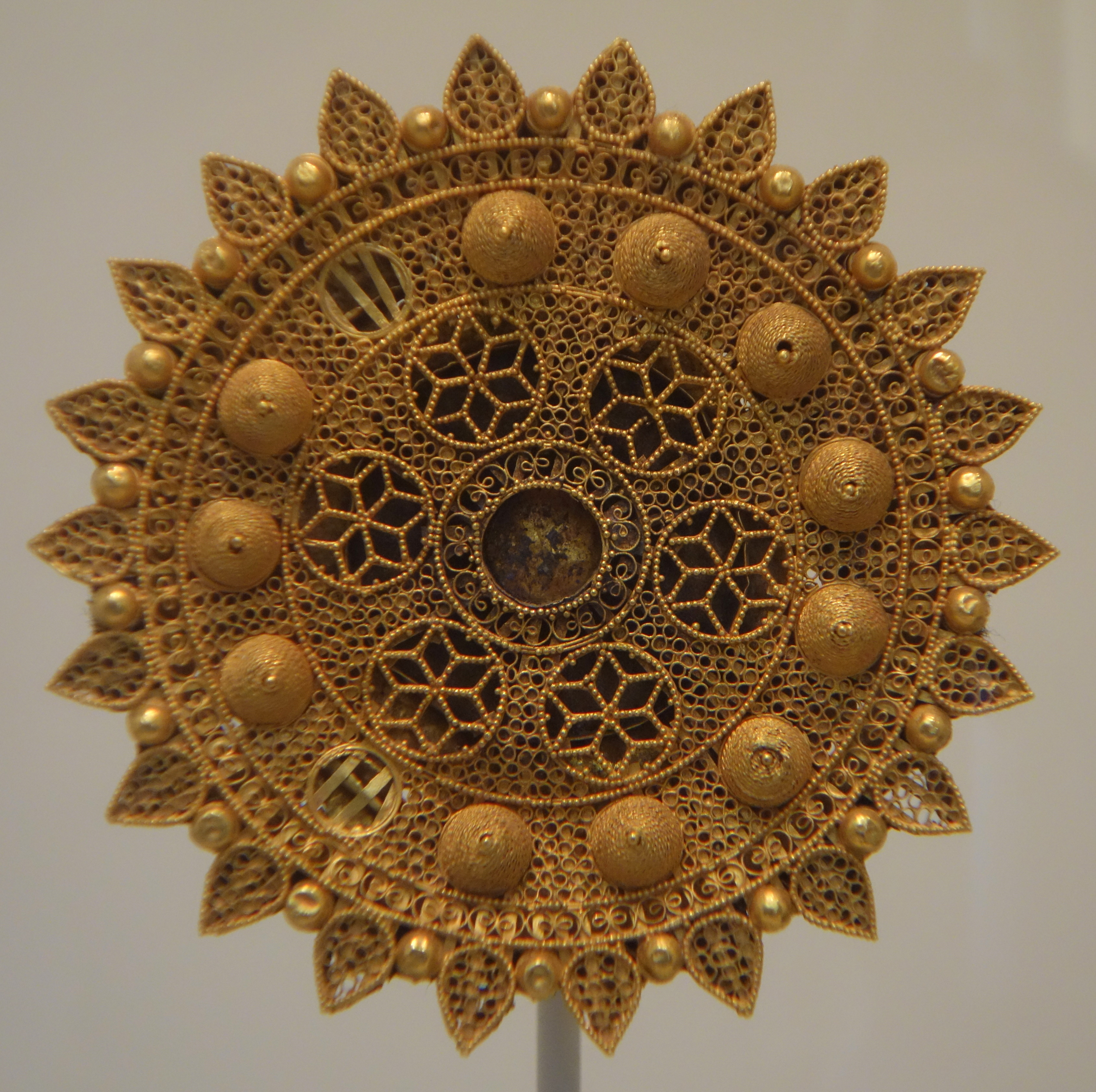 Exhibit in the Cincinnati Art Museum, Cincinnati, Ohio, USA. This artwork is in the public domain because the artist died more than 70 years ago.